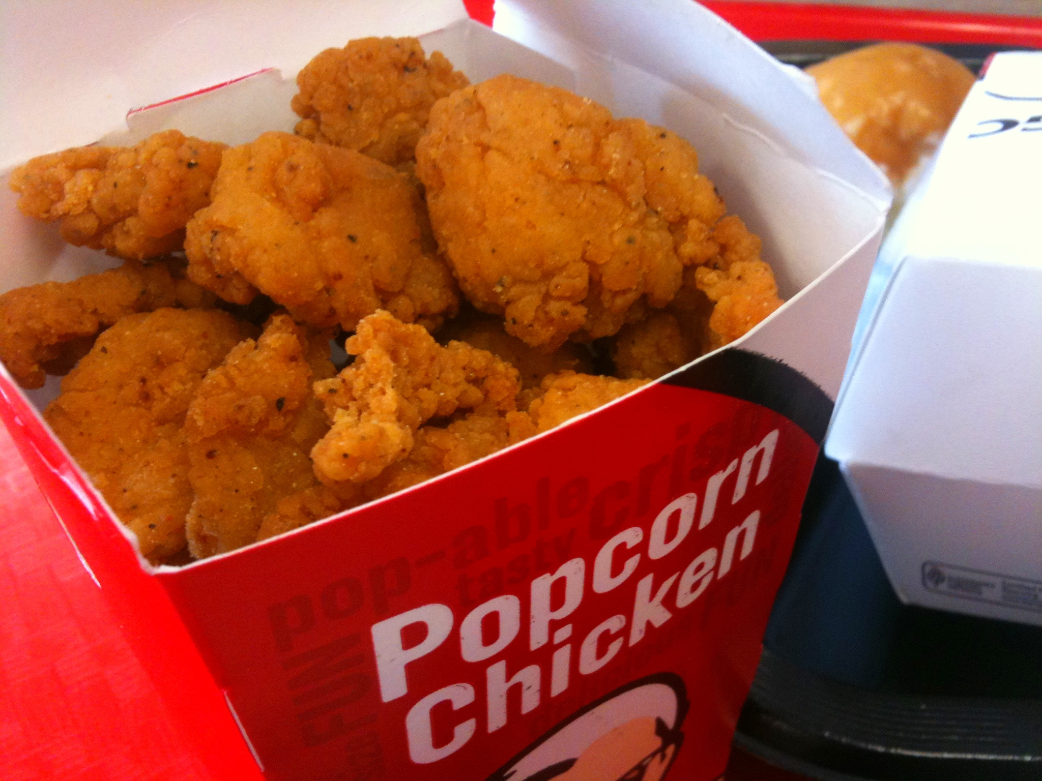 KFC Popcorn Chicken by Mike Mozart of TheToyChannel and JeepersMedia on YouTube.